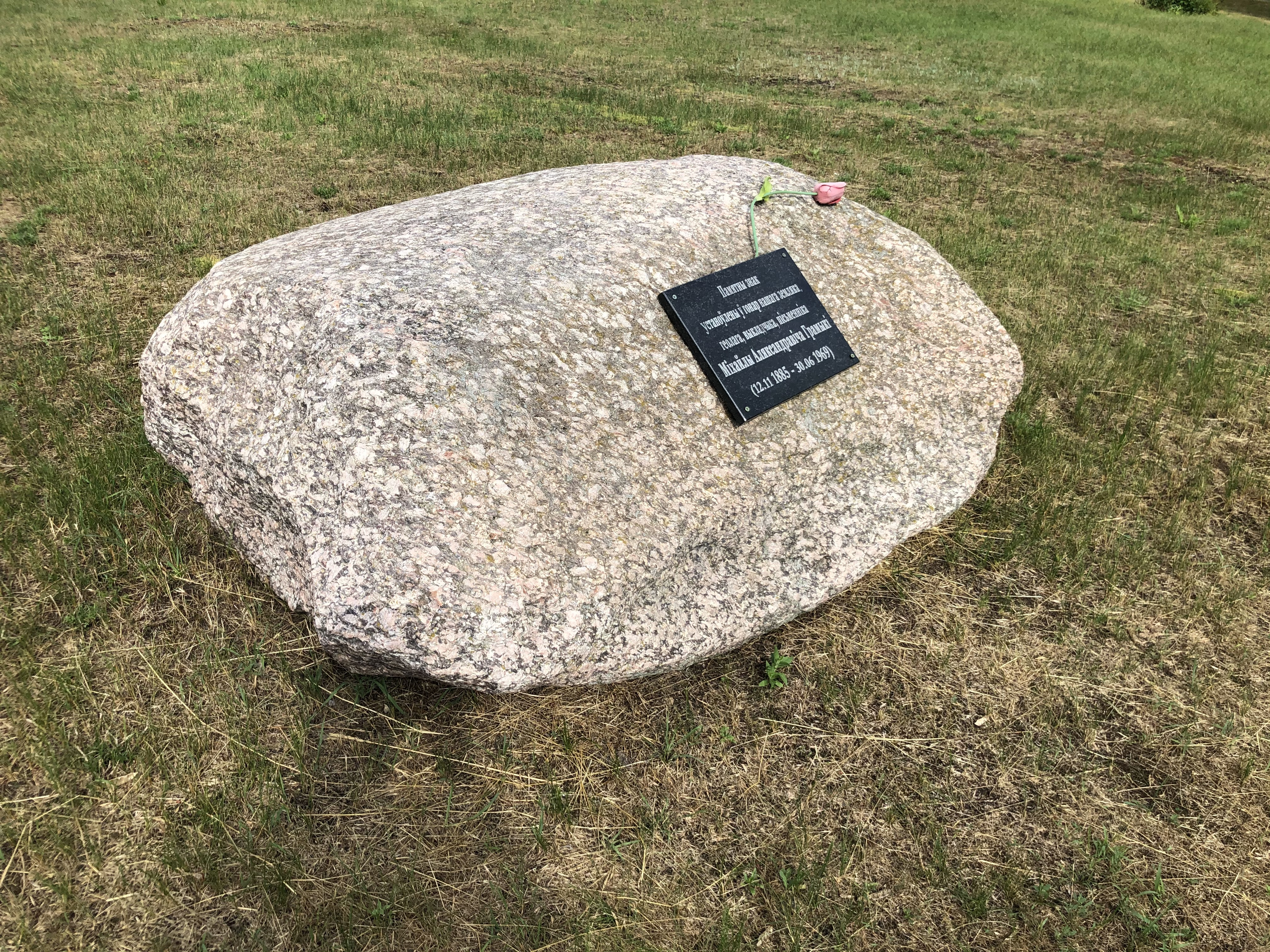 Gorodok, memorial, Buda-Kashelevskiy Region 2020 july